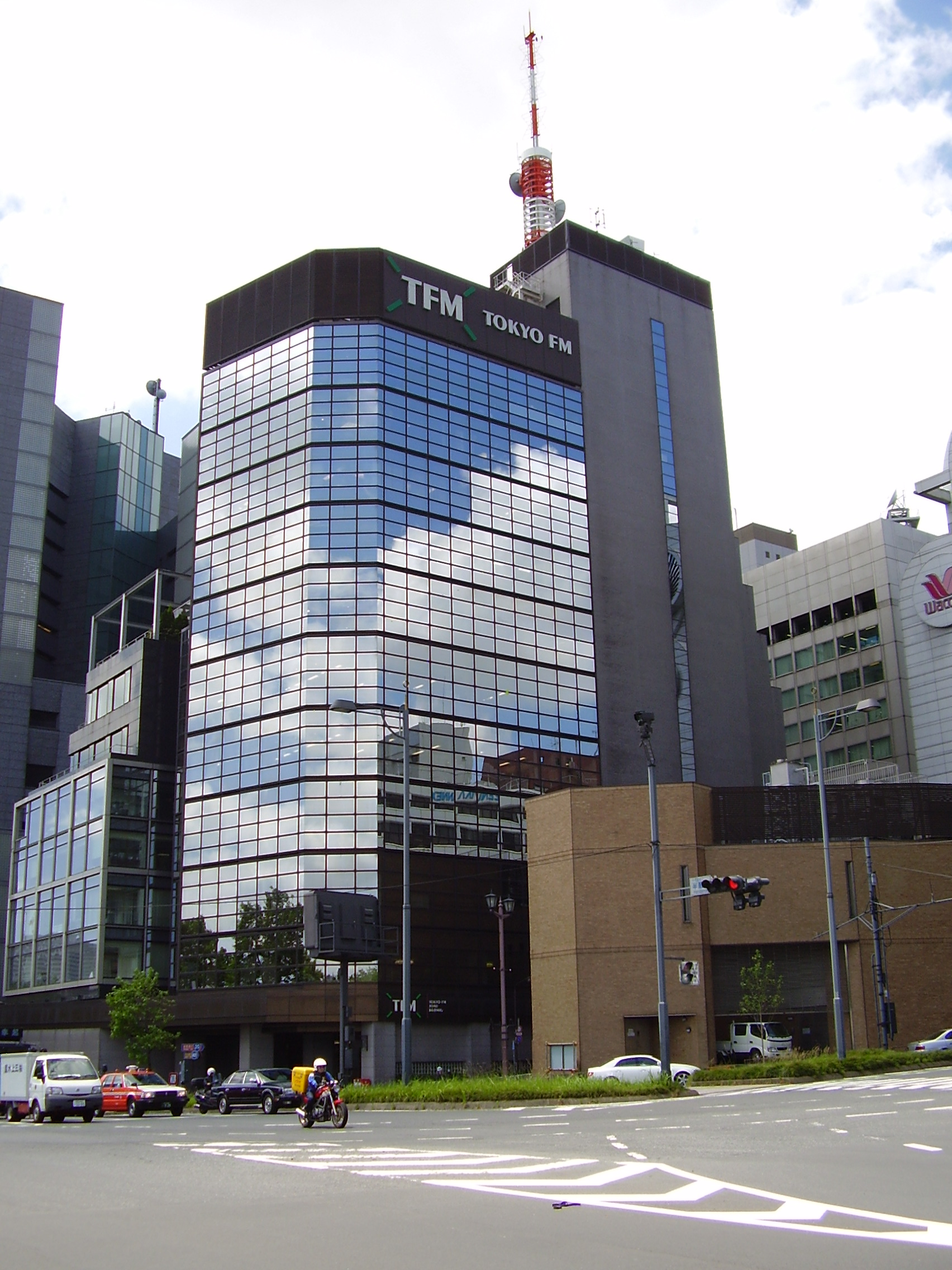 Tokyo FM